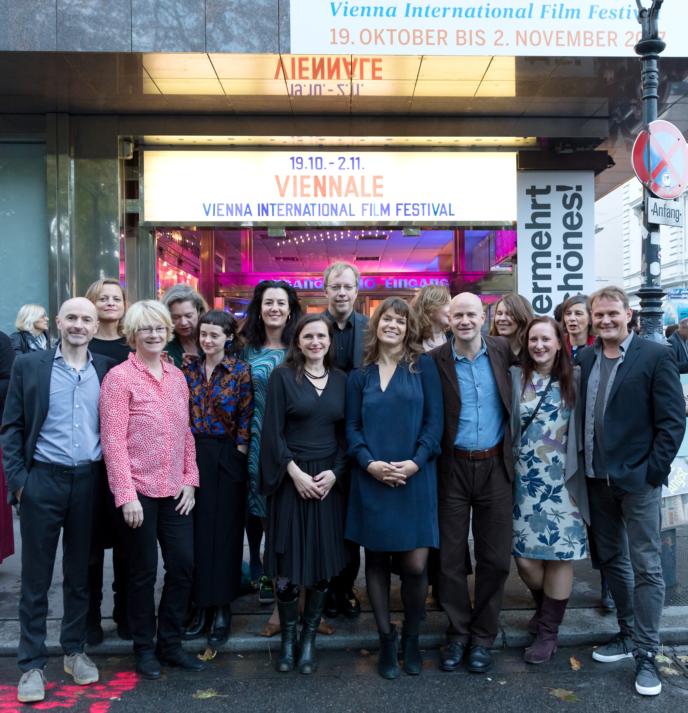 Barbara Albert with part of the film team of Mademoiselle Paradis at the Vienna International Film Festival 2017 (Gartenbaukino, Vienna, Austria).